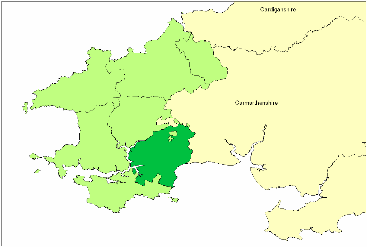 Map showing the location of the Hundred of Narberth in relation to the rest of Pembrokeshire.